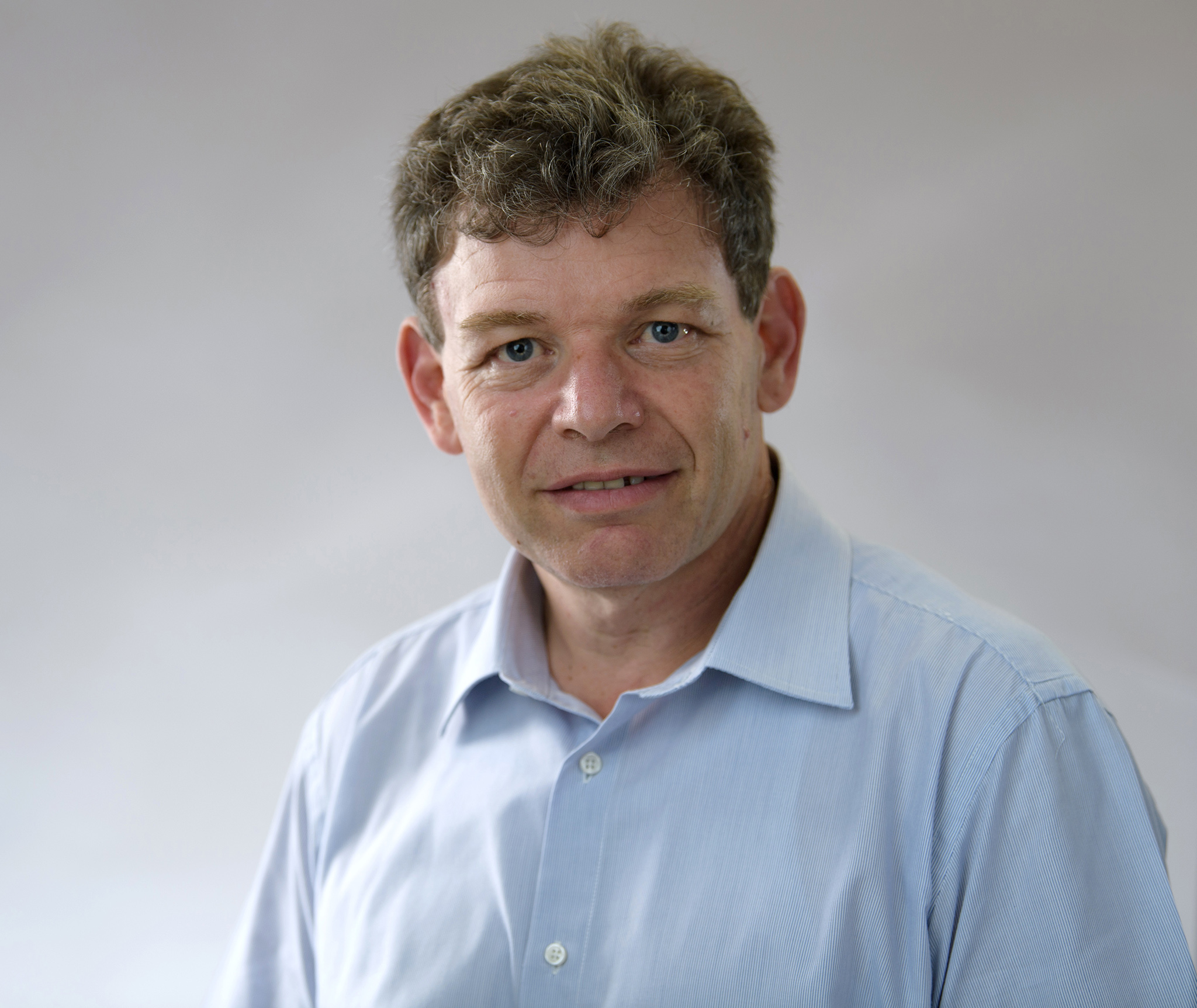 Prof. Chaim Hames Ben Gurion University of the Negev rector